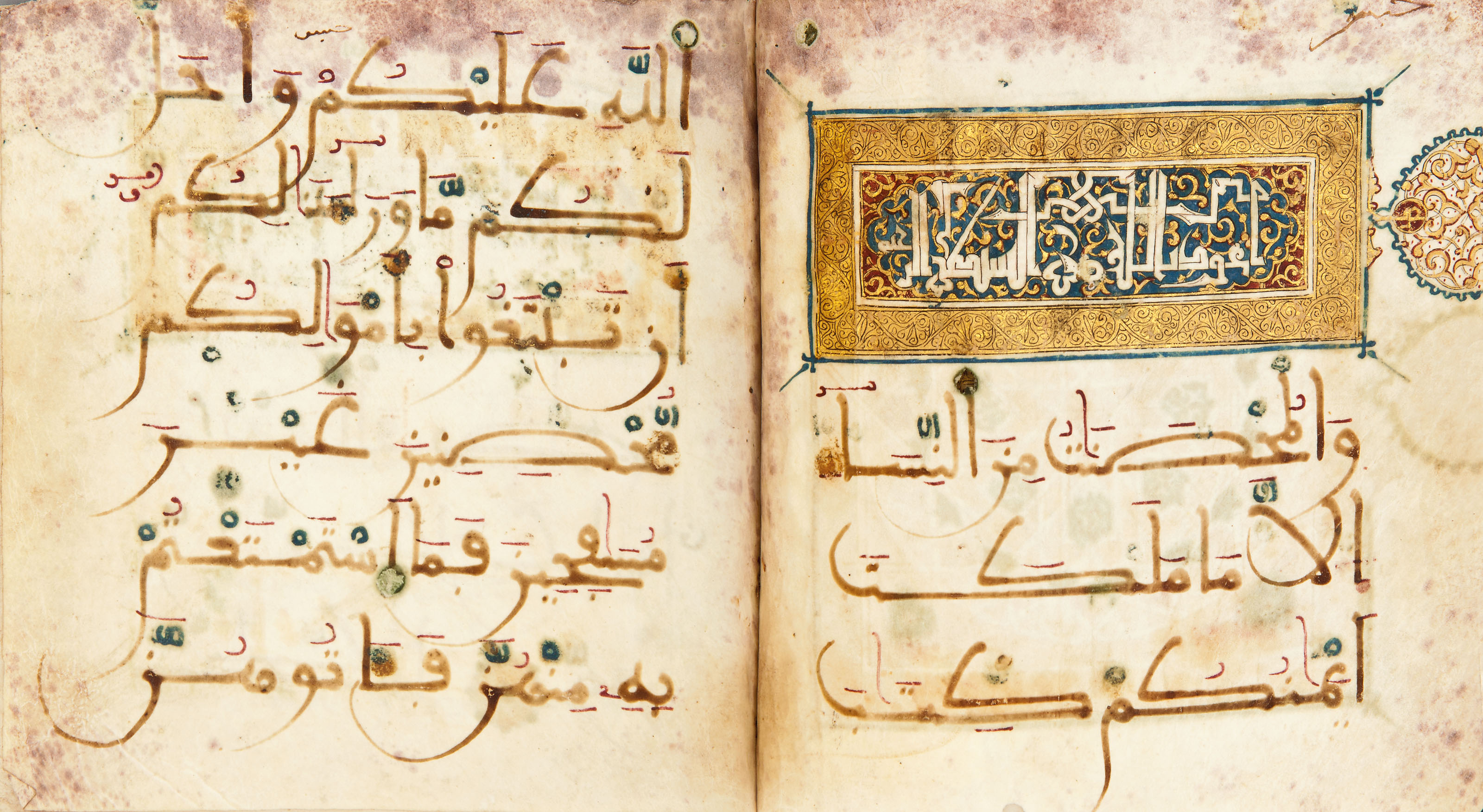 Decoration of an Almoravid / Almohad Quran 12th/13th century